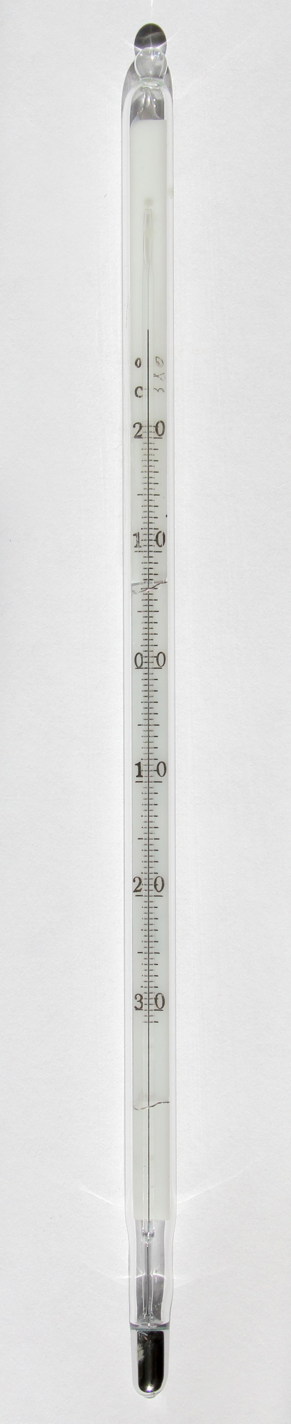 Mercury laboratory thermometer